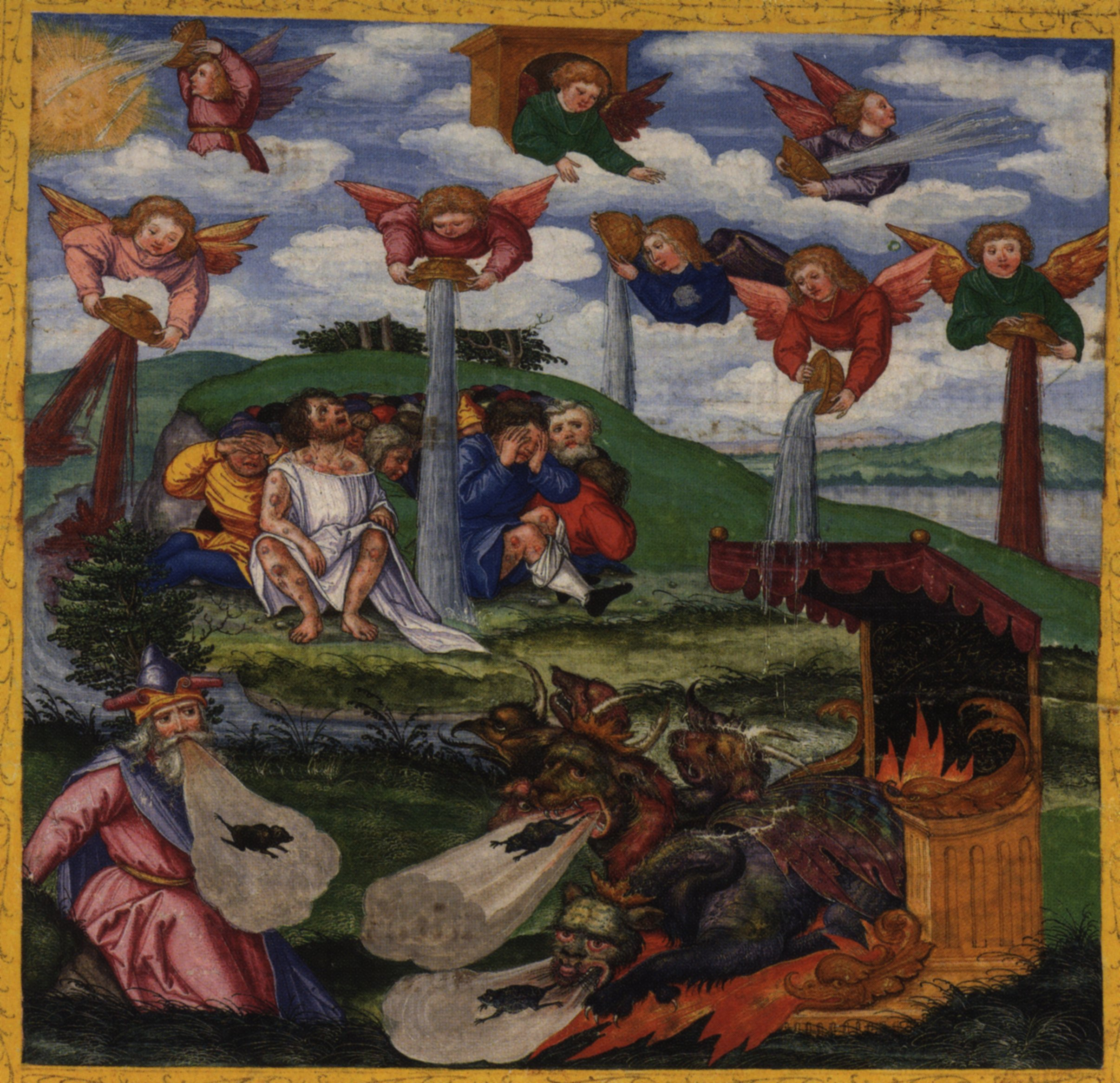 Page 298: The Giving of the Seven Bowls of Wrath / The First Six Plagues, Revelation 16:1-16